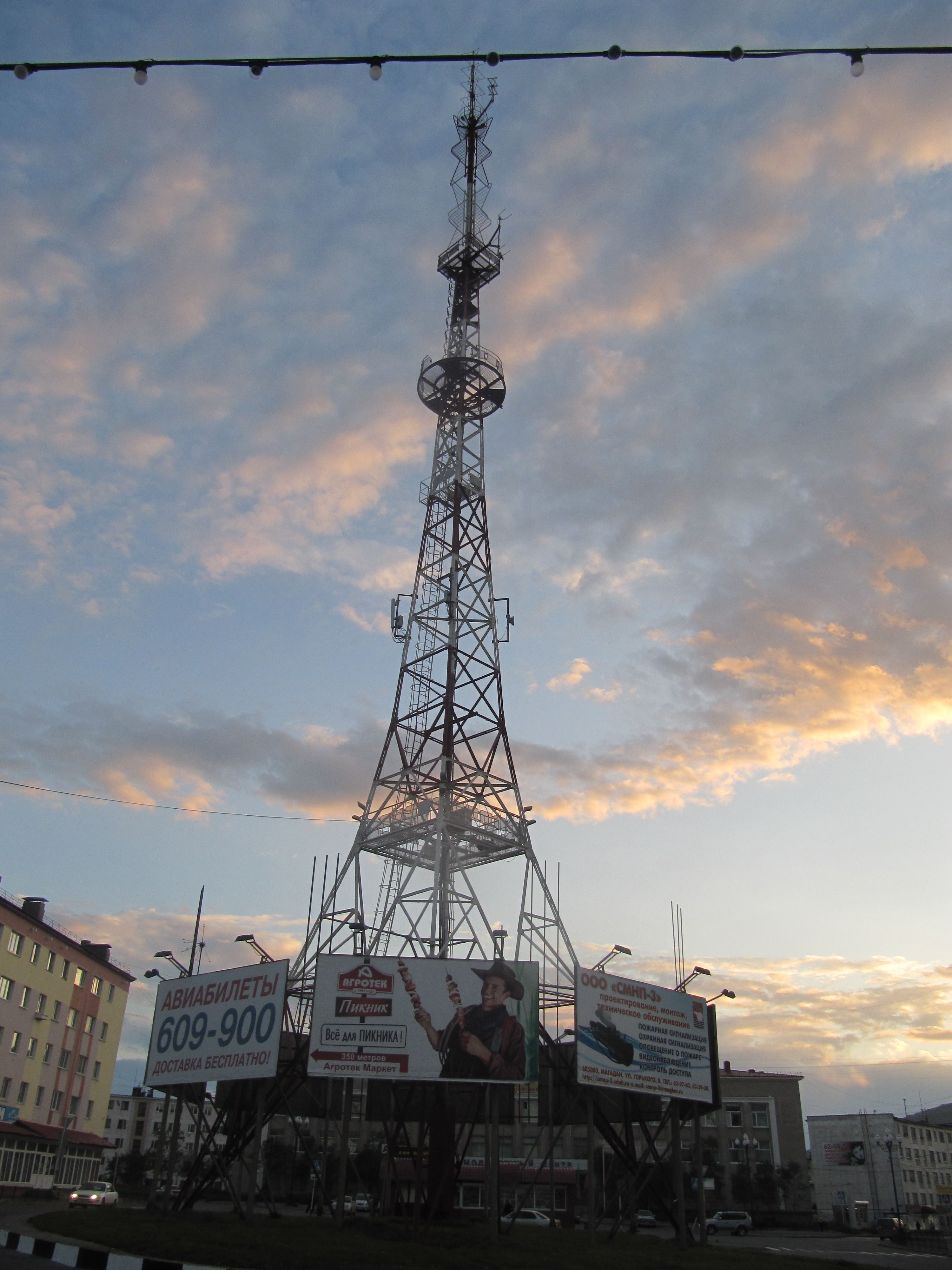 I love the cowboy ad.